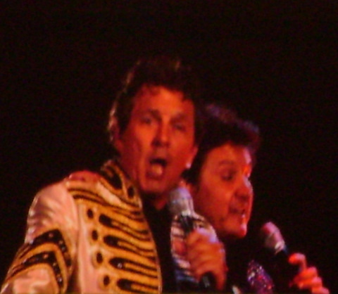 Robert ten Brink during Toppers 2009